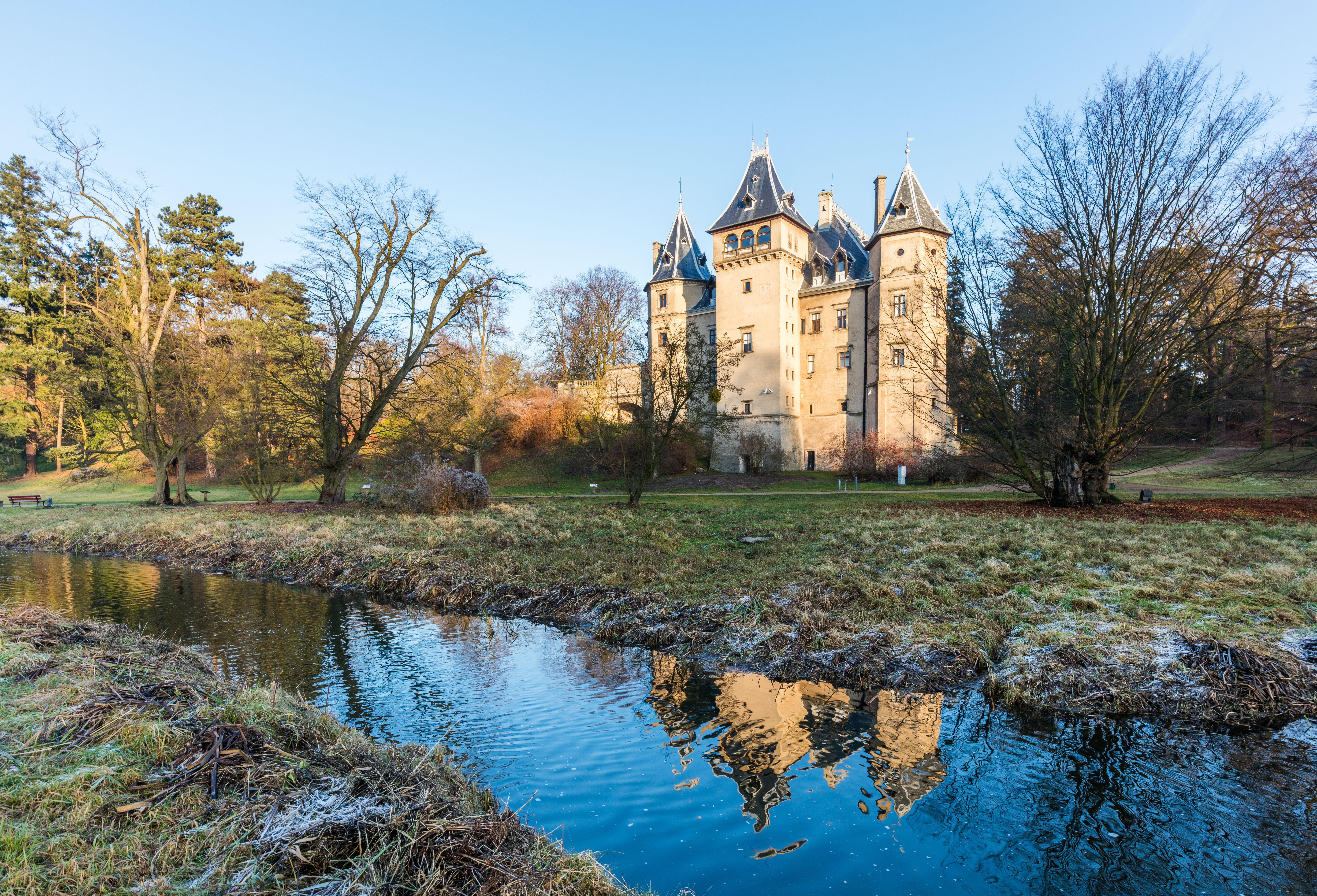 Gołuchów Castle, Greater Poland, Poland IV-73/166/54.